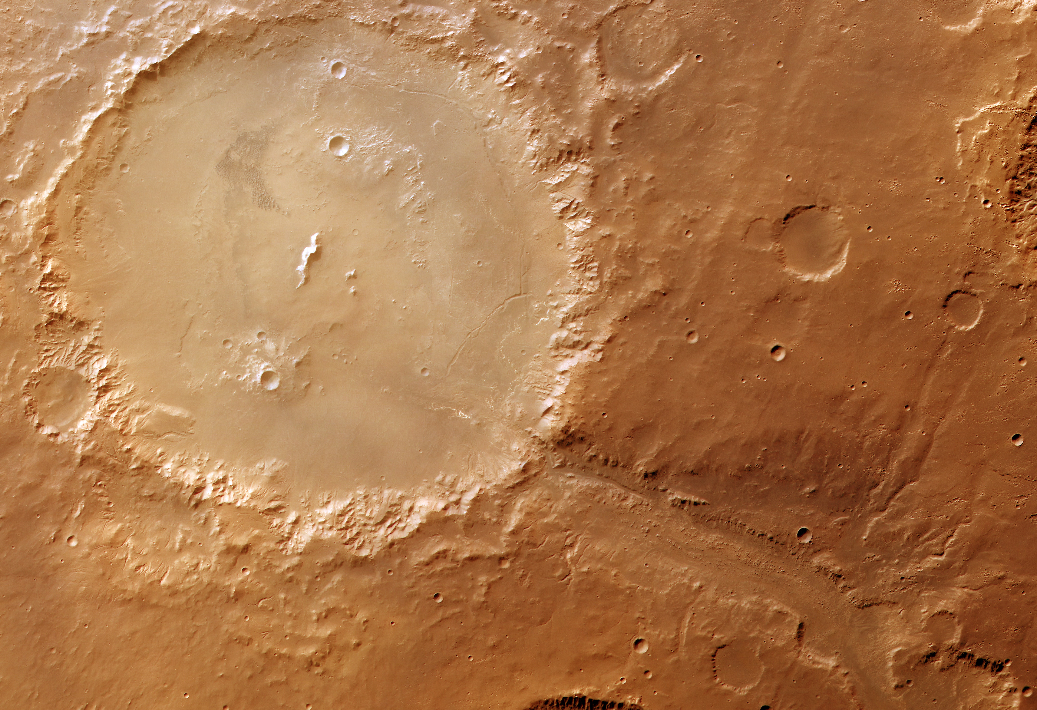 The crater Holden and Uzboi Vallis imaged by the HRSC instrument aboard Mars Express. Due to haze close to the base of Holden, the crater floor appears brighter than normal.